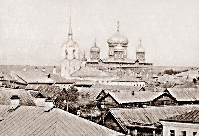 Дореволюционная Судогда. Свято-Екатерининский собор.